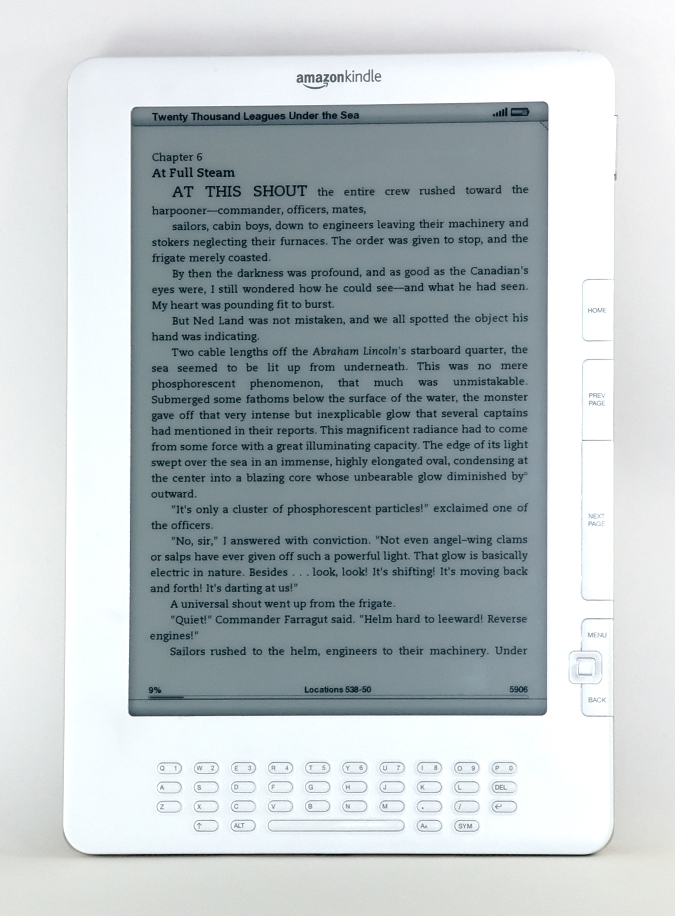 The front of the Amazon Kindle DX